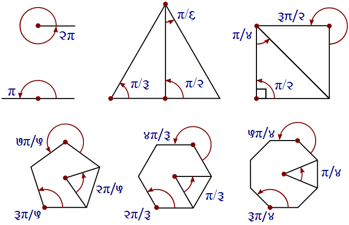 information about radian in marathi